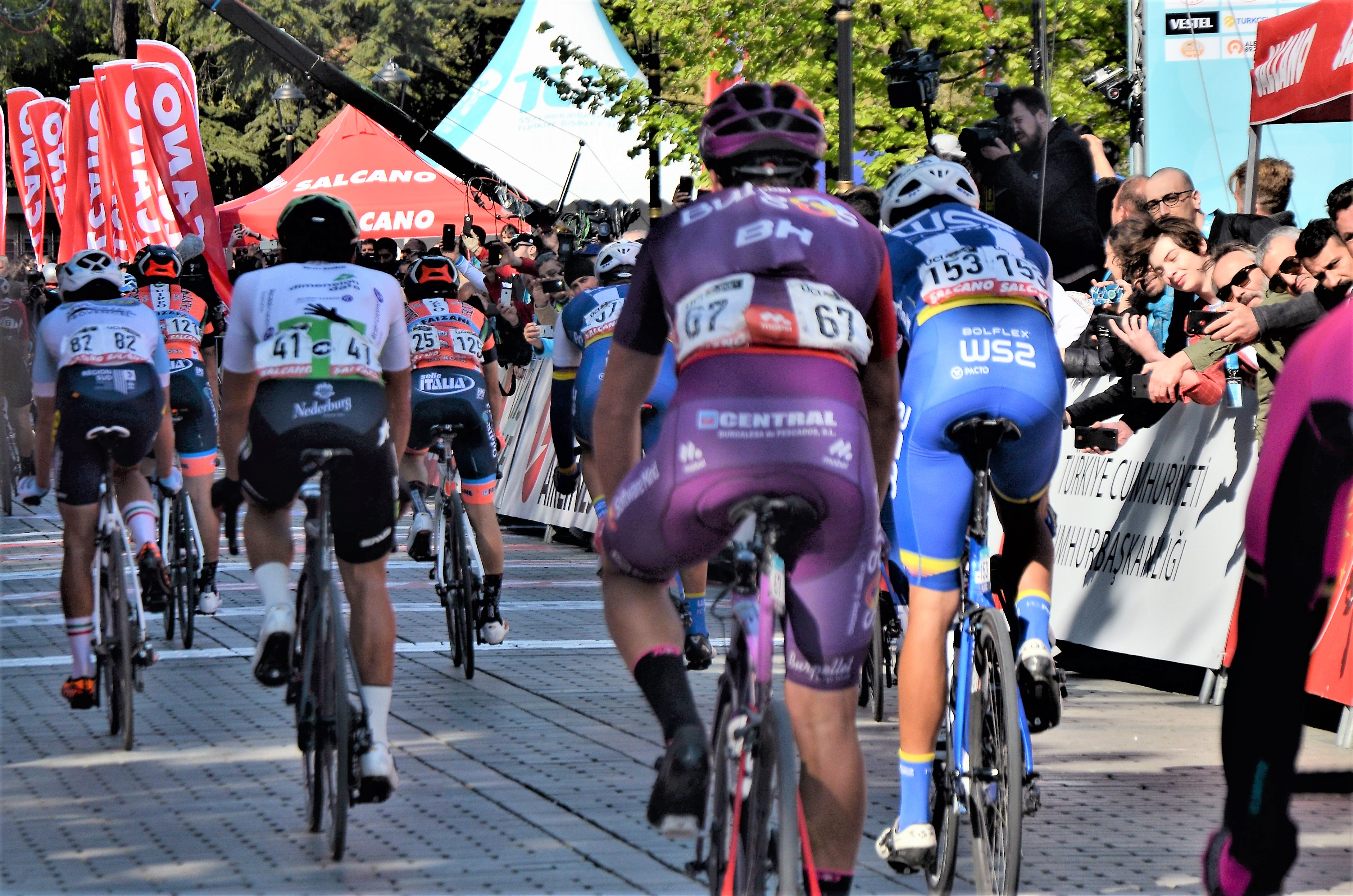 Finish position at the 55th Presidential Cycling Tour of Turkey in 2019..